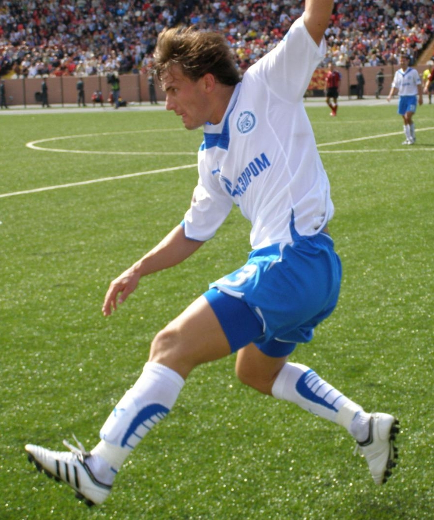 Szabolcs Huszti in action for FC Zenit St. Petersburg